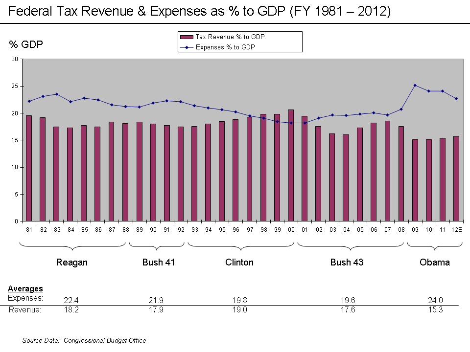 Tax and Spend % GDP in United States 1981-2012